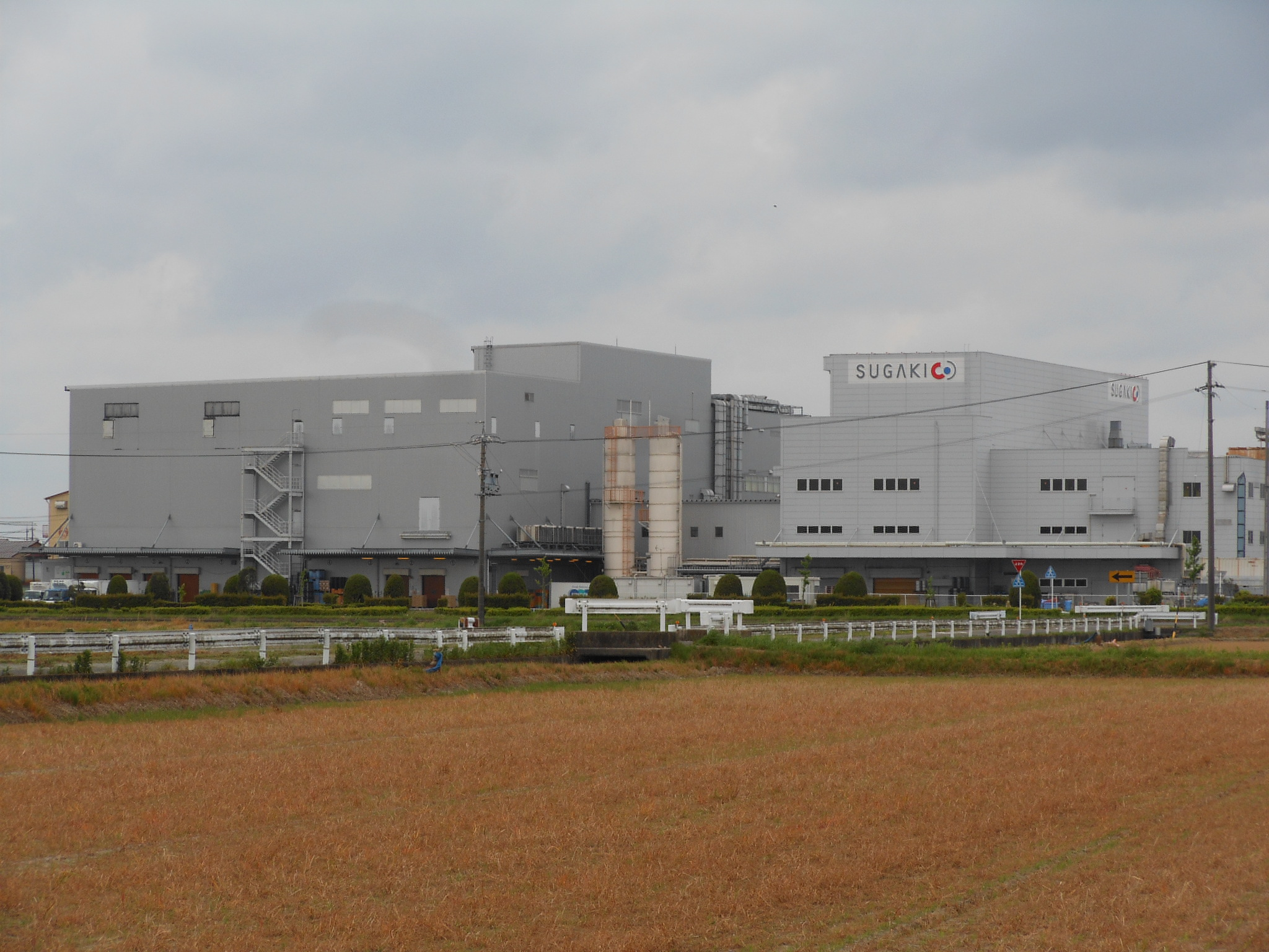 Headquarters of SugakiyaFoods Co., Ltd. in Toyoake, Aichi